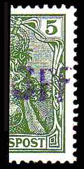 Postage stamp provisorium overprinted "3 pf" for SMS Vineta II (German empire), 1901